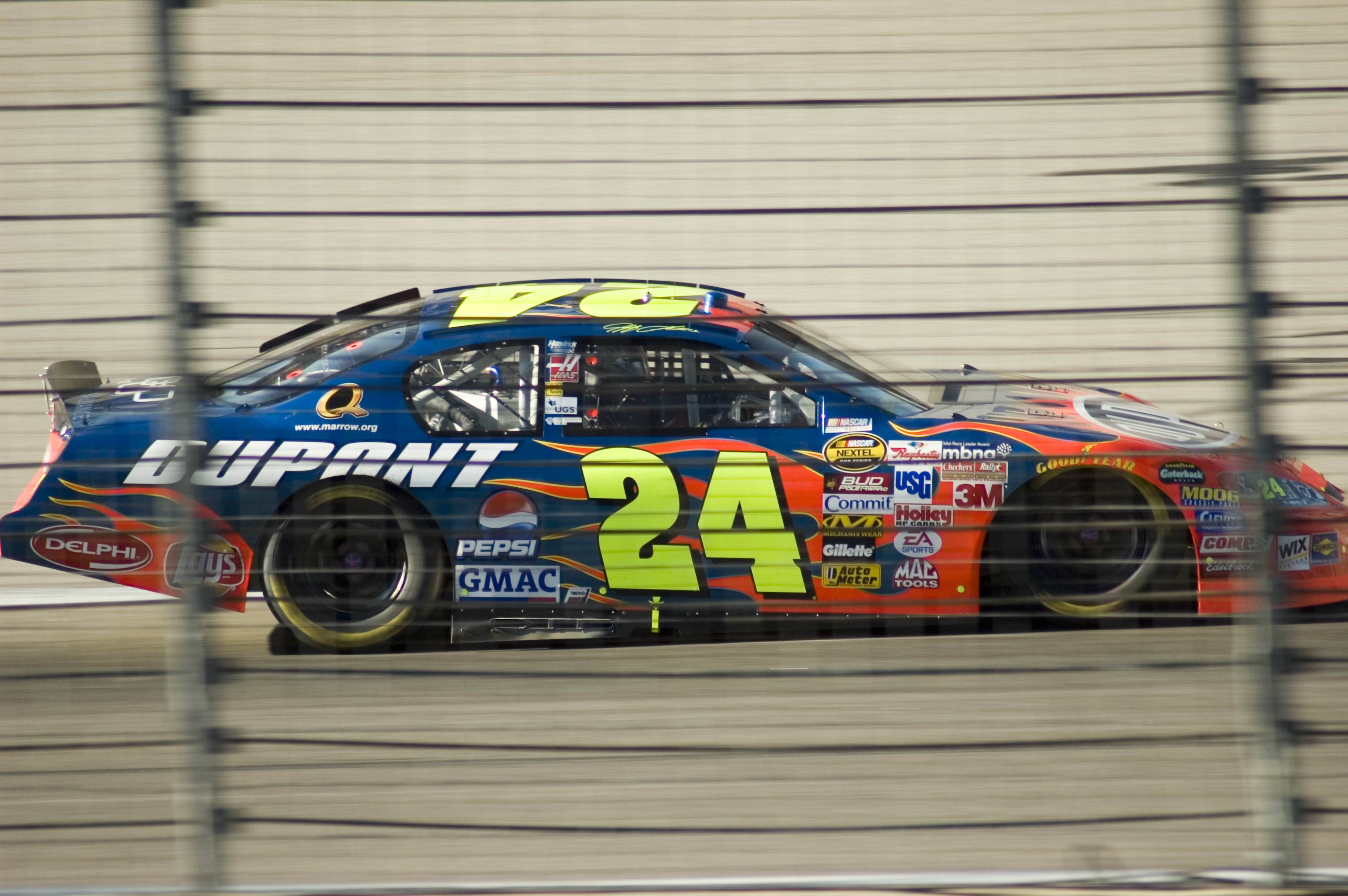 Jeff Gordon coming out of Turn 2 at the Texas Motor Speedway, November 6, 2005 during the Dickies 500.